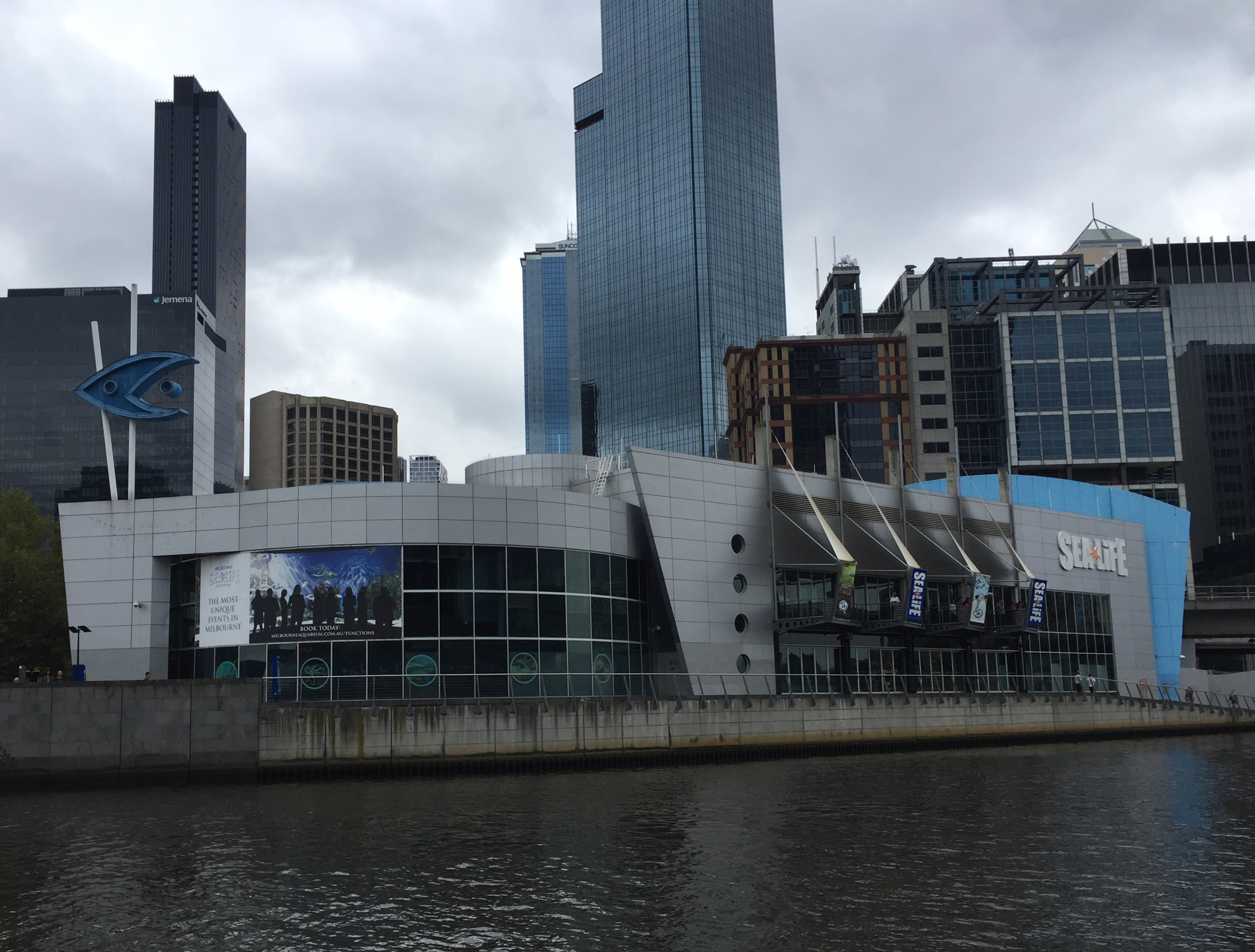 the Sea Life Melbourne Aquarium seen from the Yarra River in February 2018